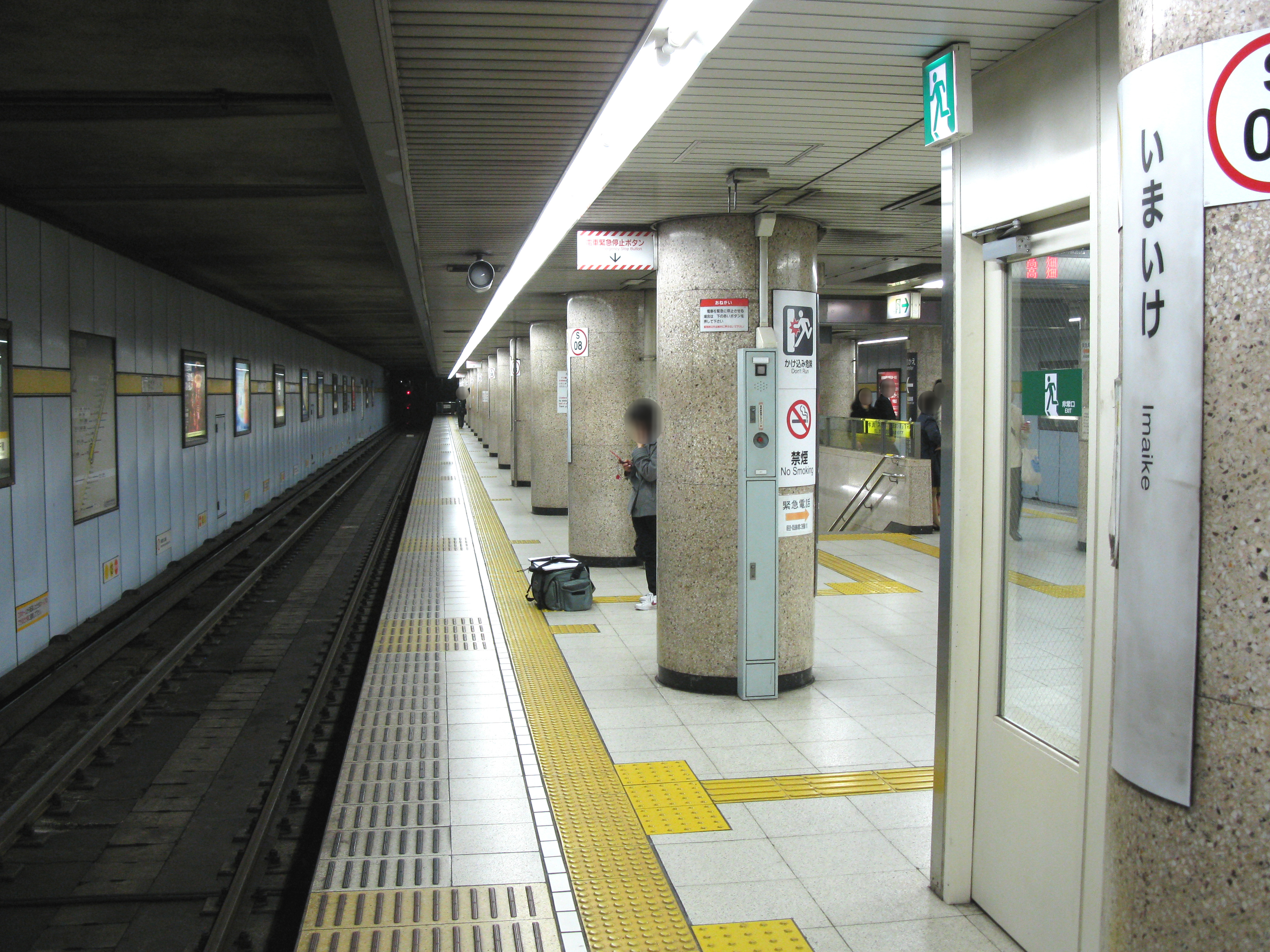 Imaike Station platform (Nagoya Municipal Subway Higashiyama Line)